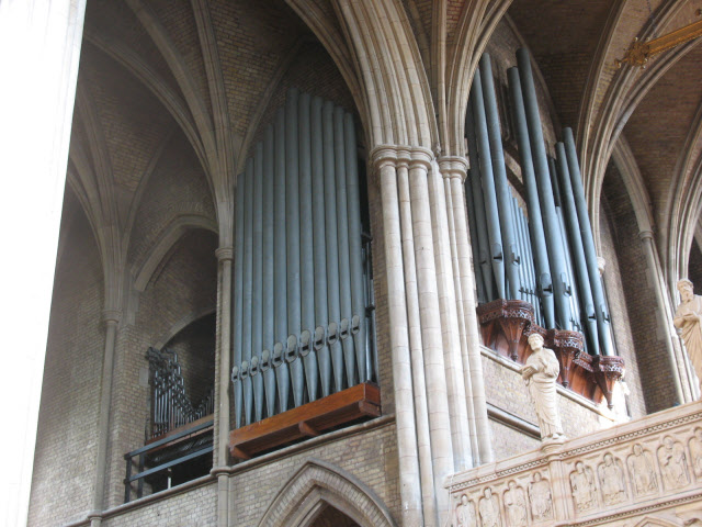 Organ of St John's church. A brief history of the church generally is given at 39262. A full history of the organ is at but briefly, it was one of the first electro-pneumatic organs ever built, by Lewis & Co of Brixton, using batteries, although the technology was ahead of its time and not successful. Much added to and altered over the years, it was restored in 1999 back to nearer Lewis's original intentions.